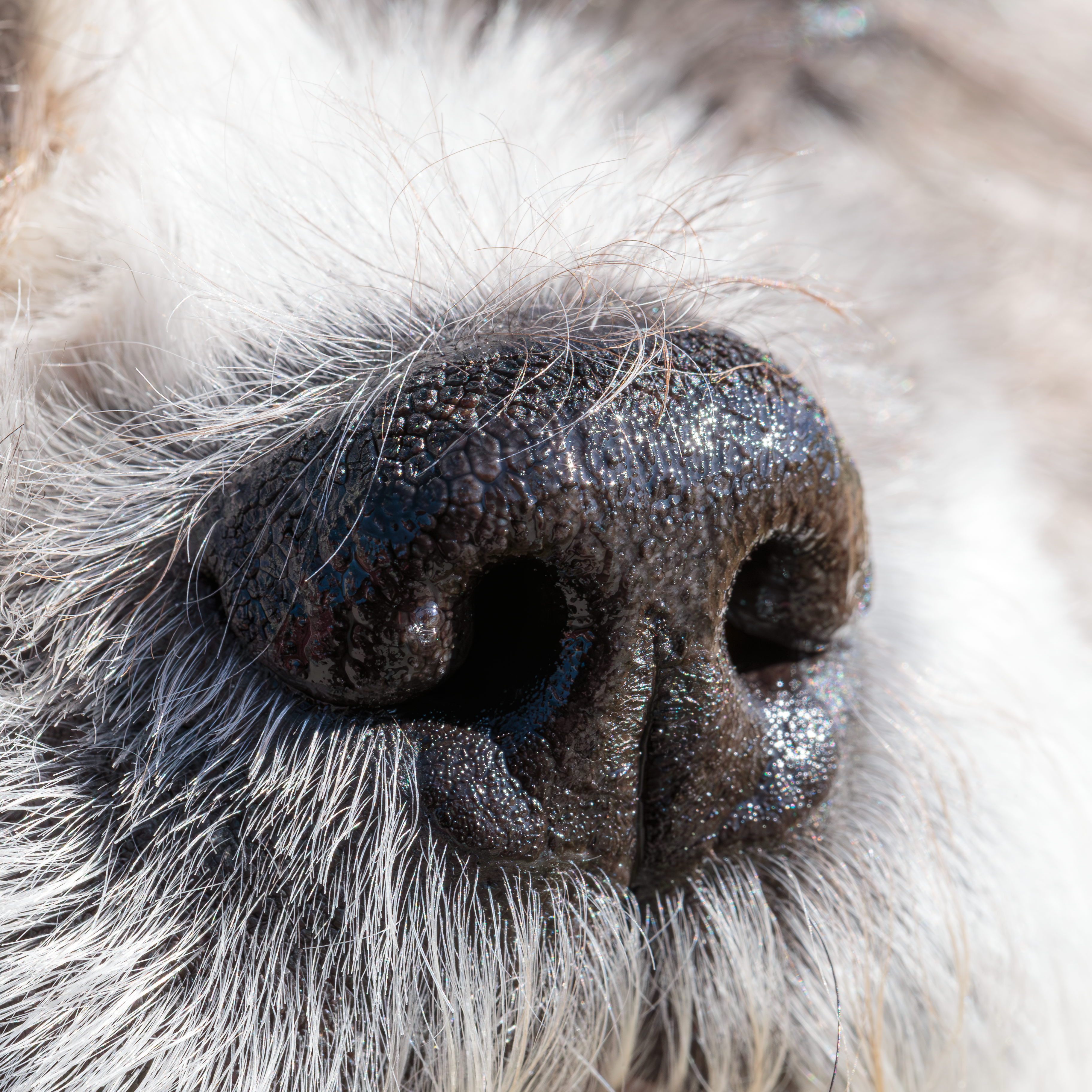 This photo demonstrates the texture and structure of a typical dog nose, including a protective moisture layer generated by licking and from its own mucus.